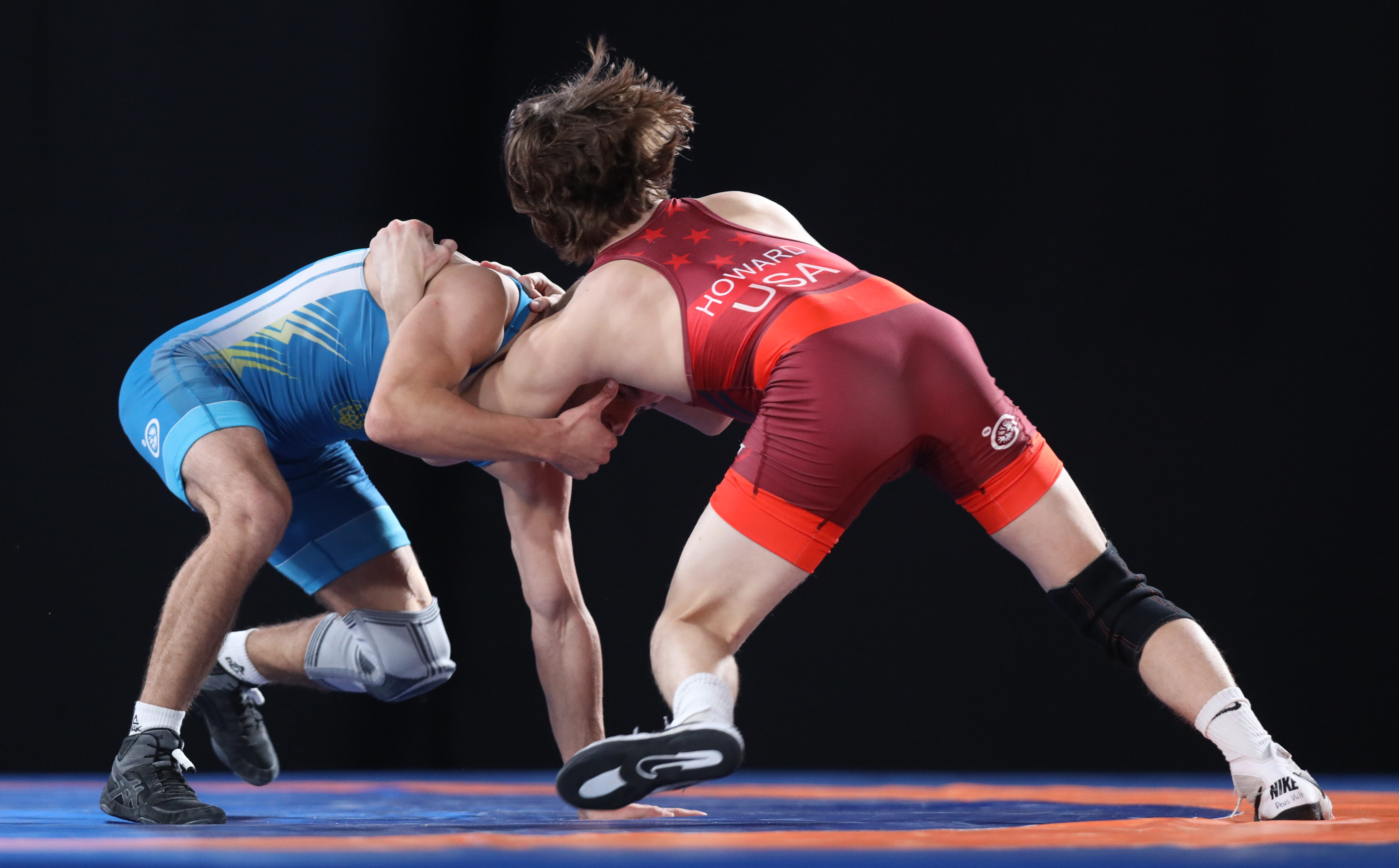 Boys Wrestling, Freestyle 55 kg, Group Stage: Robert Howard vs. Vladyslav Ostapenko